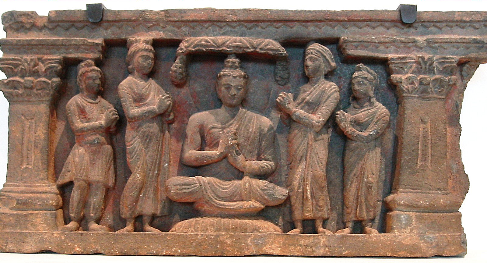 Kushan devotee couple, around the Buddha, Brahma and Indra. 2nd century CE, Greco-Buddhist art of Gandhara. Musee Guimet. Personal photograph 2005.